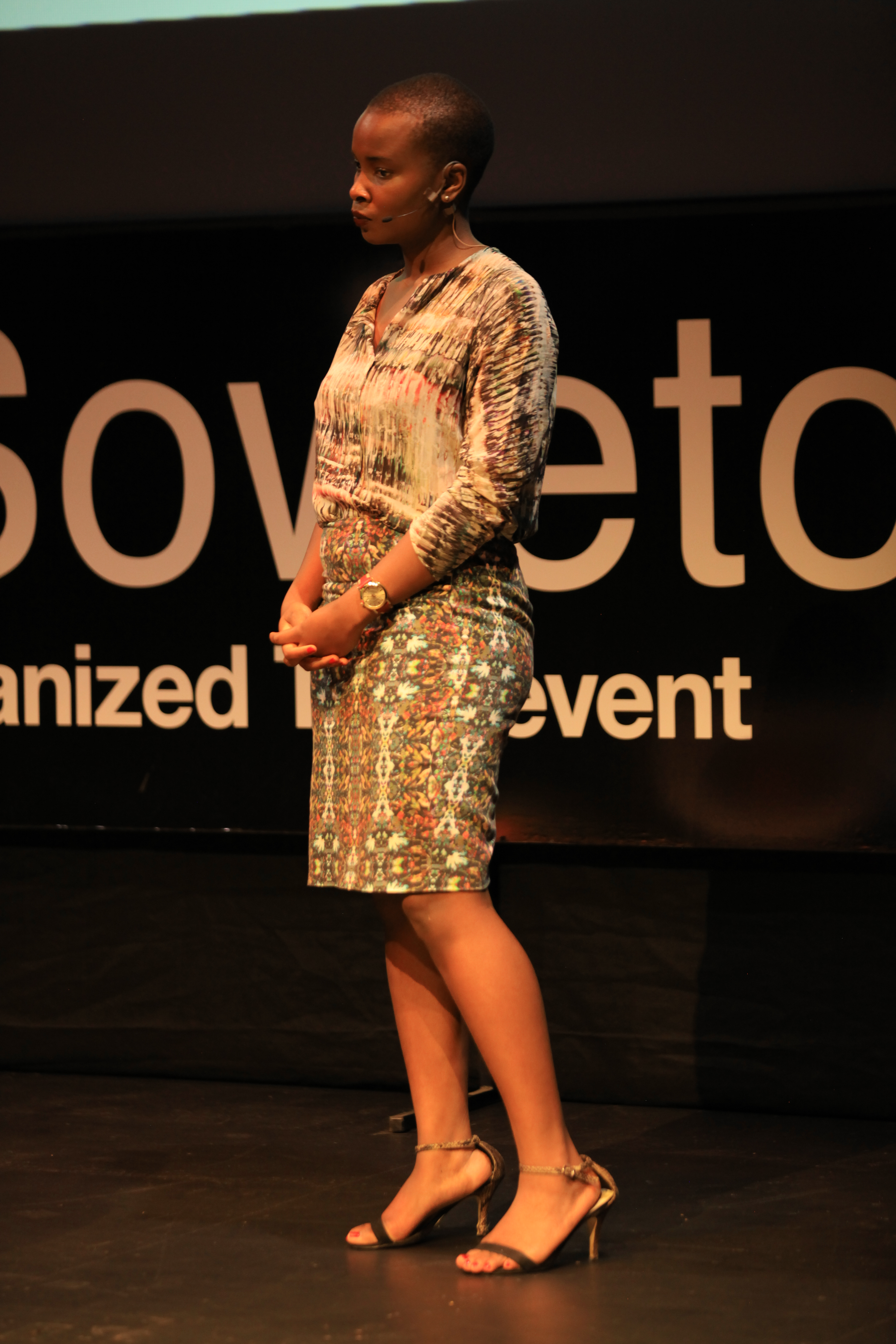 TEDxSoweto, 22 November 2014, Soweto Theatre, Photo: Sims Phakisi/TEDxSoweto